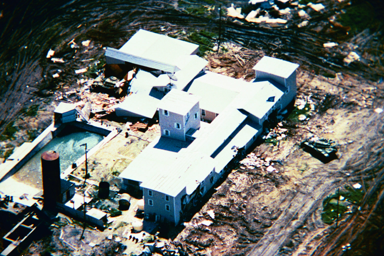 Tank has just smashed in the main entrance to Mount Carmel.